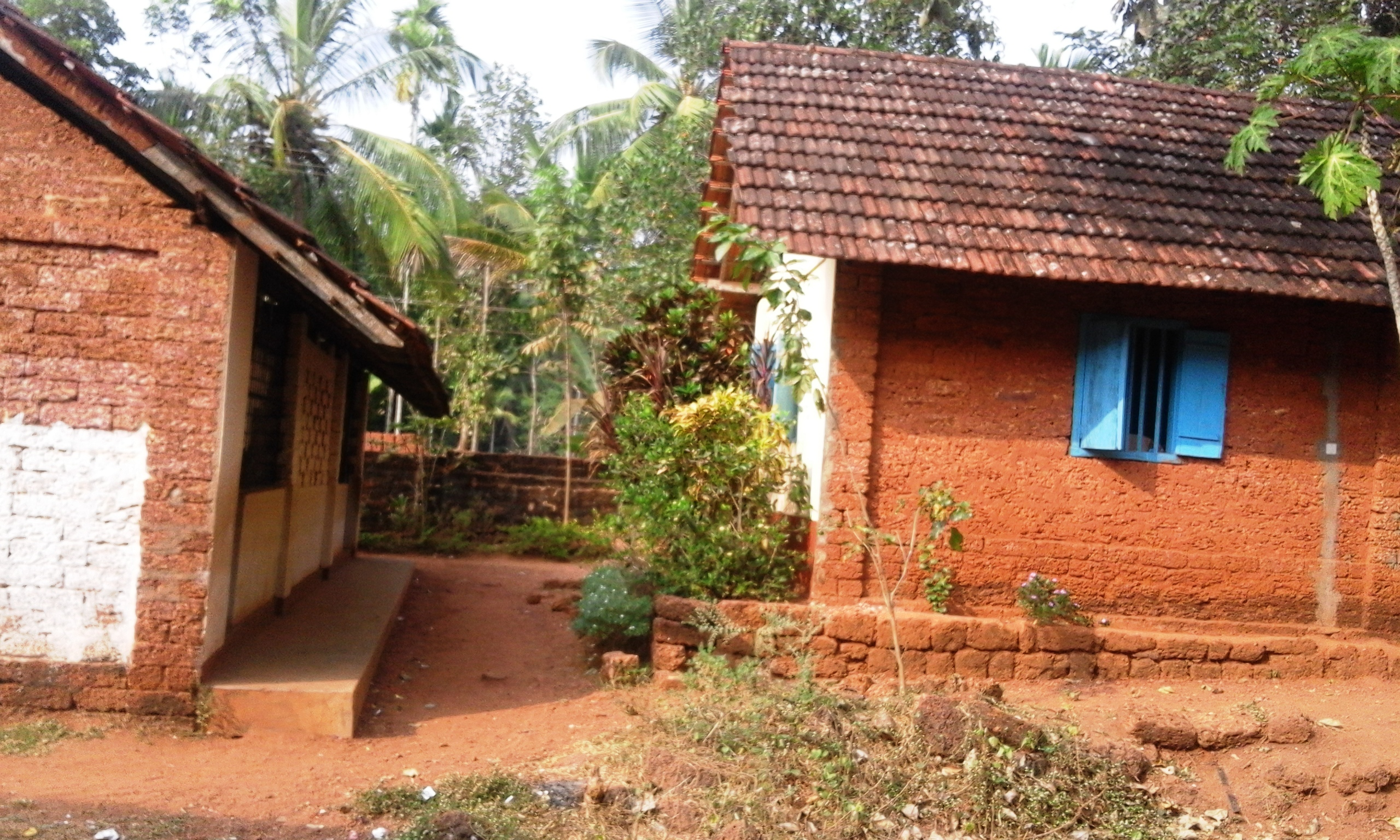 Kolakkuth, Idimuzhikkal, Ramanattukara, Kerala, India.